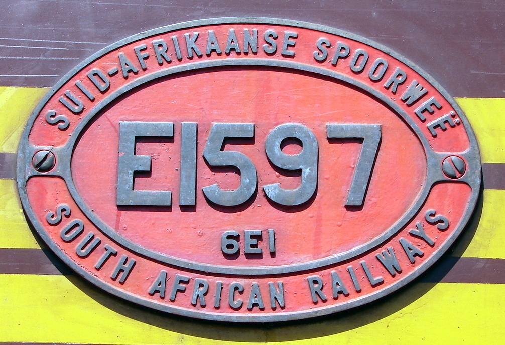 SAR Class 6E1 Series 5 E1597 number plate Location: Bellville, Cape Town